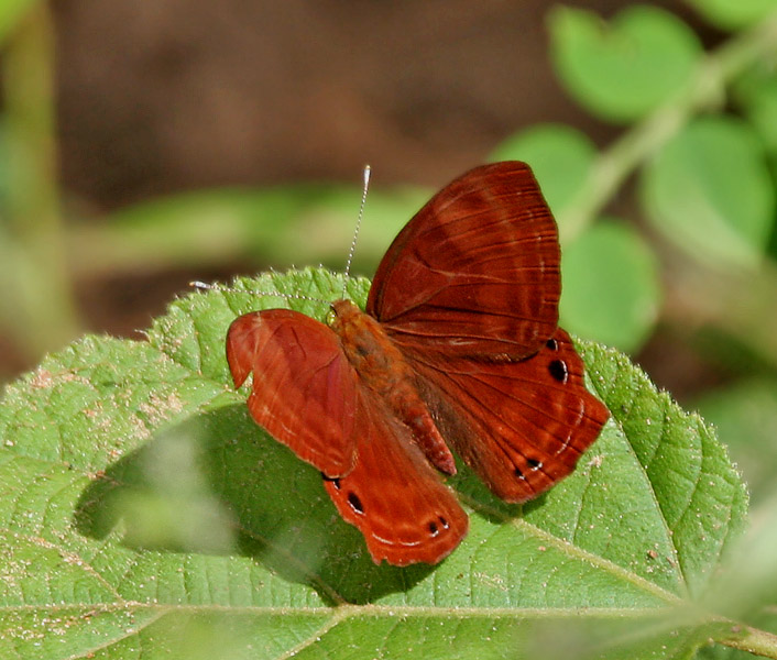 Plum Judy Abisara echerius in Talakona forest, in Chittoor District of Andhra Pradesh, India.